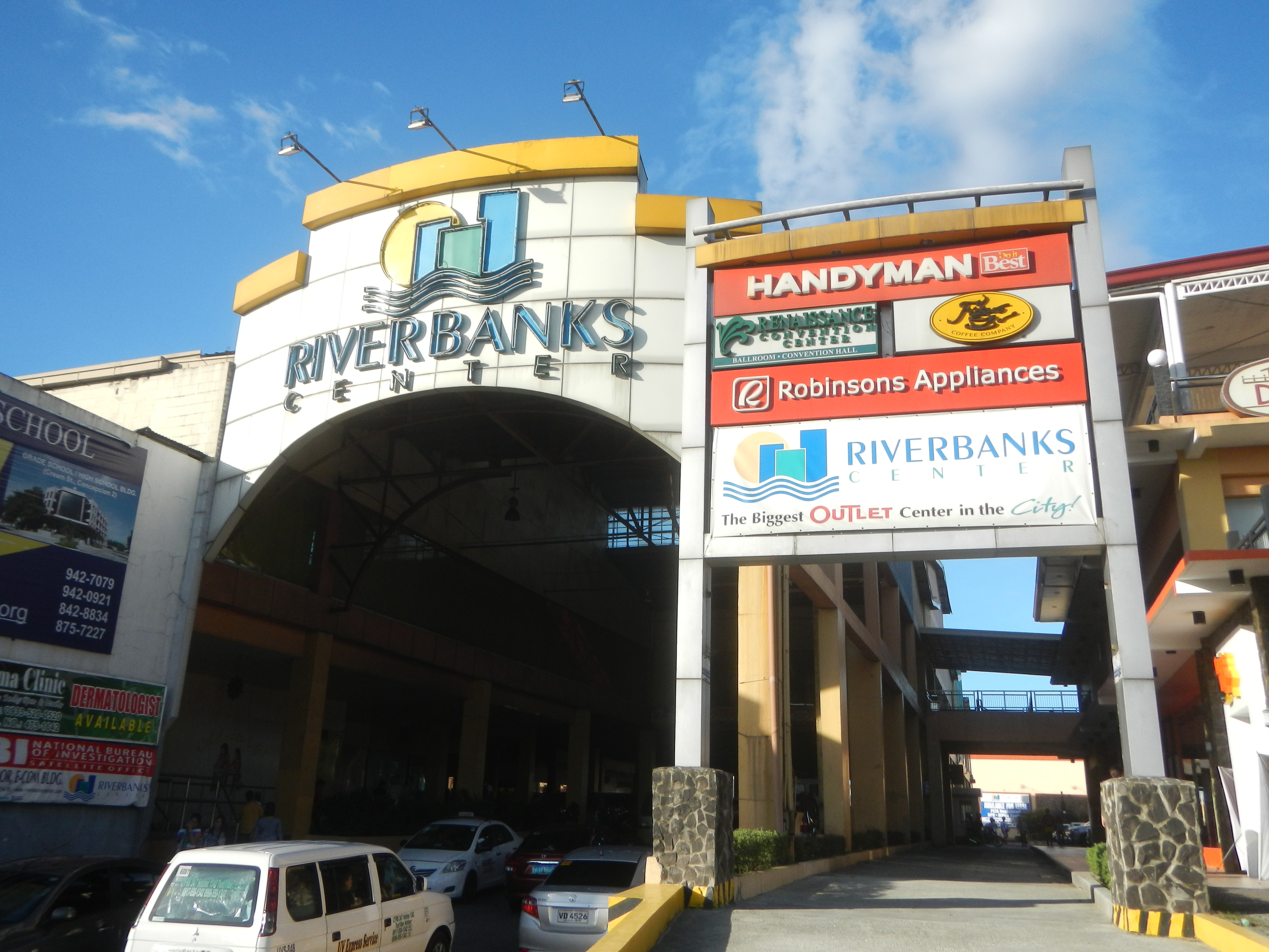 Marikina River Carabao statues List of landmarks and attractions of Marikina Marikina River Park Riverbanks Center beside or part of SM City Marikina 14°37'35"N 121°5'3"E Radial Road-6 in Barangays of Marikina Barangays Barangka (Marikina) and Calumpang, Marikina Marikina City (Note: Judge Florentino Floro, the owner, to repeat, Donor Florentino Floro of all these photos hereby donate gratuitously, freely and unconditionally all these photos to and for Wikimedia Commons, exclusively, for public use of the public domain, and again without any condition whatsoever).